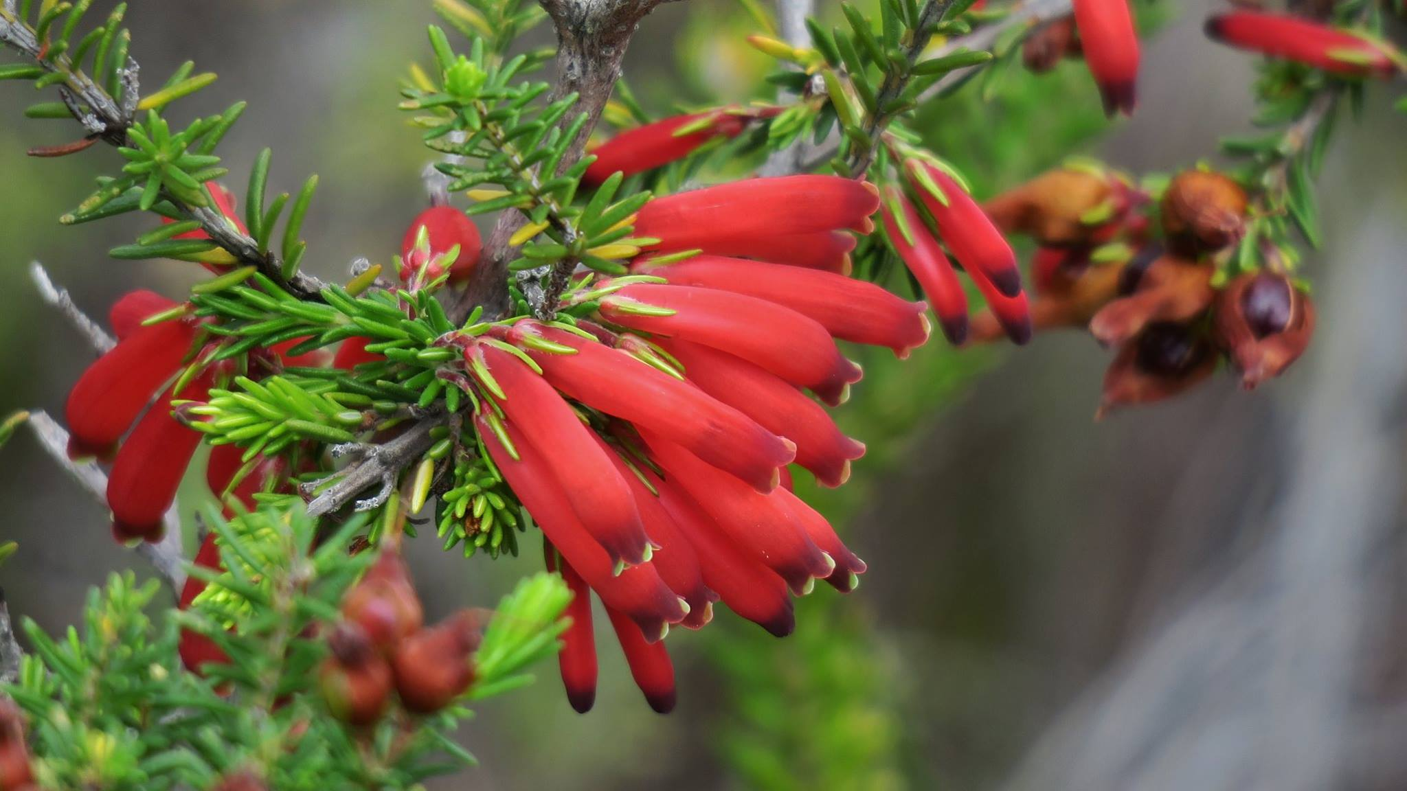 Erica chloroloma Lindl. - Sardinia Bay Nature Reserve, Port Elizabeth, South Africa